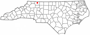 Category:North Carolina Dot Maps